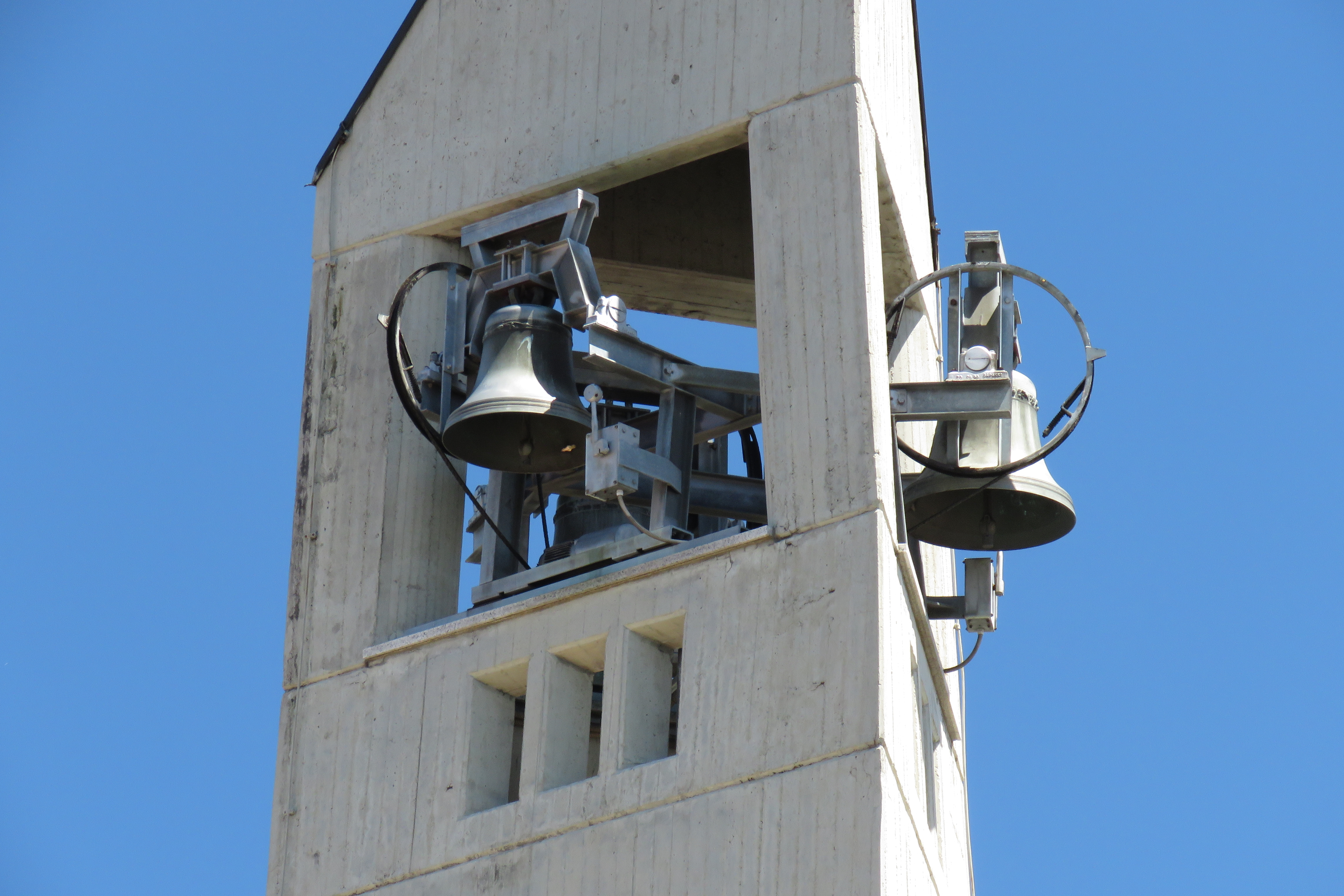 Bells installed on tower